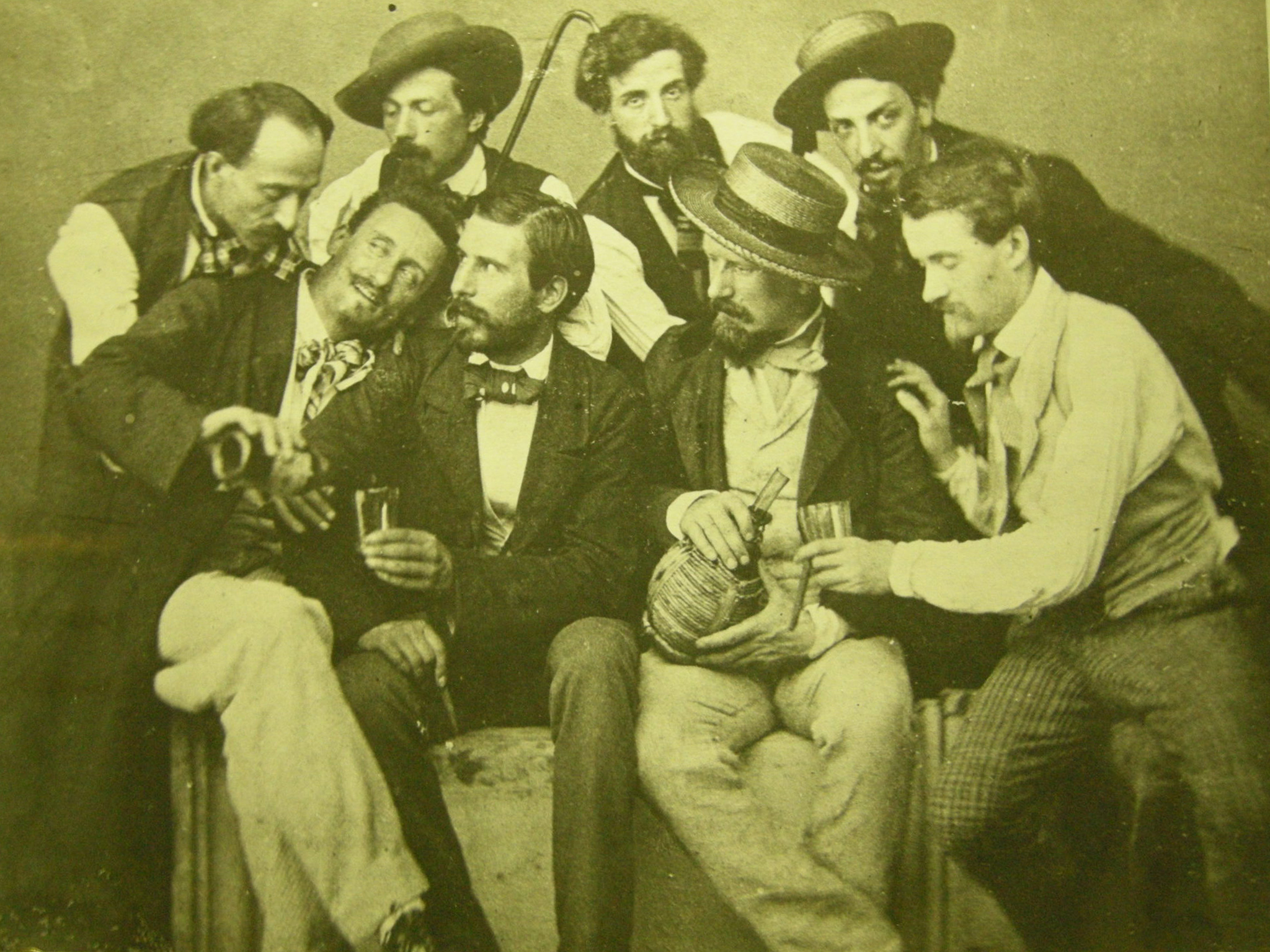 Picture of the beginning of XX century (1900-1903)